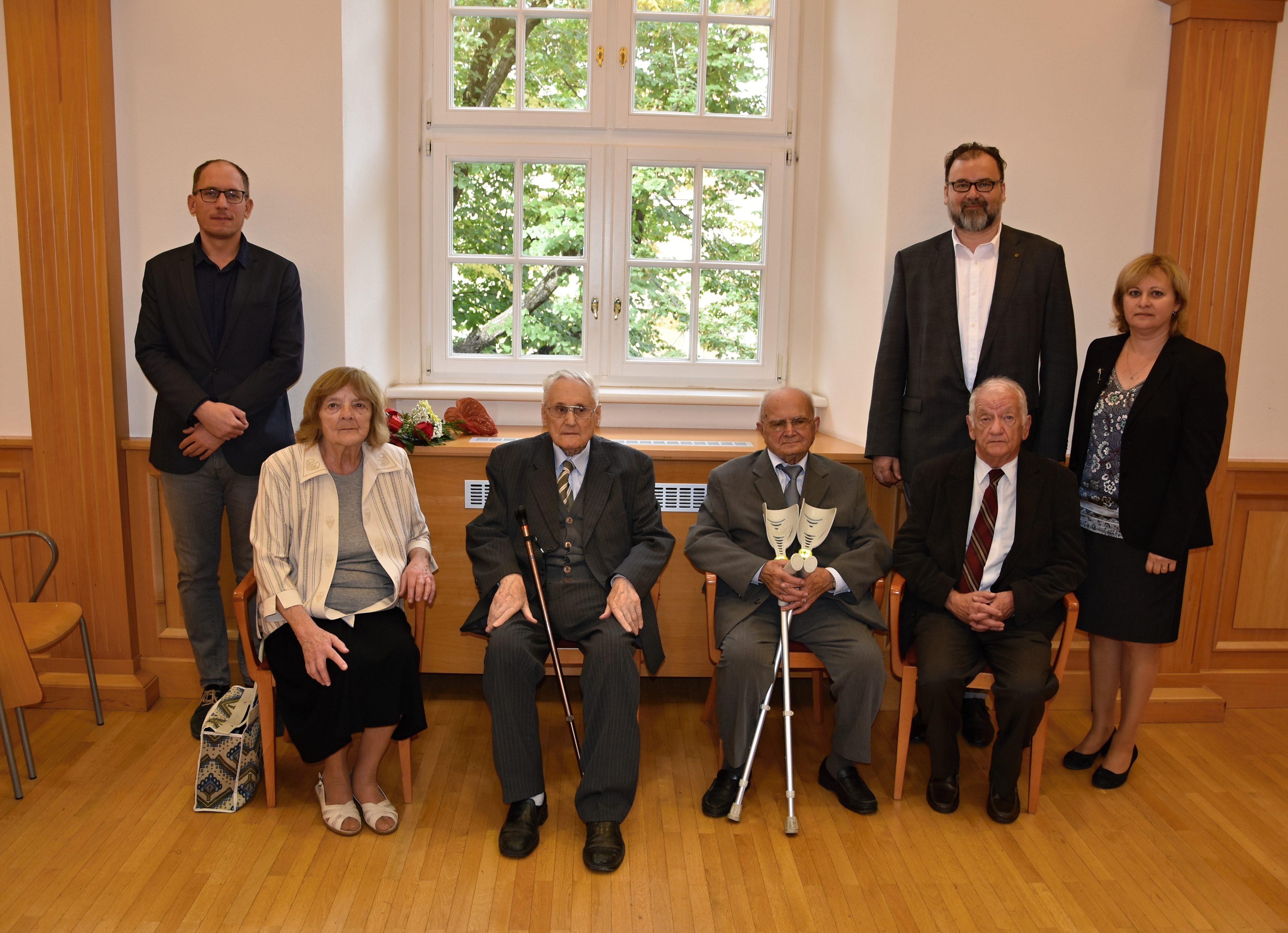 Slovenská historická spoločnosť - slávnostné odovzdávanie plakiet SHS v Trnave dňa 27. 9. 2019; na fotografii zľava: Adam Hudek, vedecký tajomník spoločnosti, pani Helena Rapantová, dcéra Daniela Rapanta, pán Richard Marsina, pán Jozef Šimončič, pán Ivan Kamenec, stojaci Rastislav Kožiak, predseda SHS, a Gabika Dudeková Kováčová, podpredsedníčka SHS.